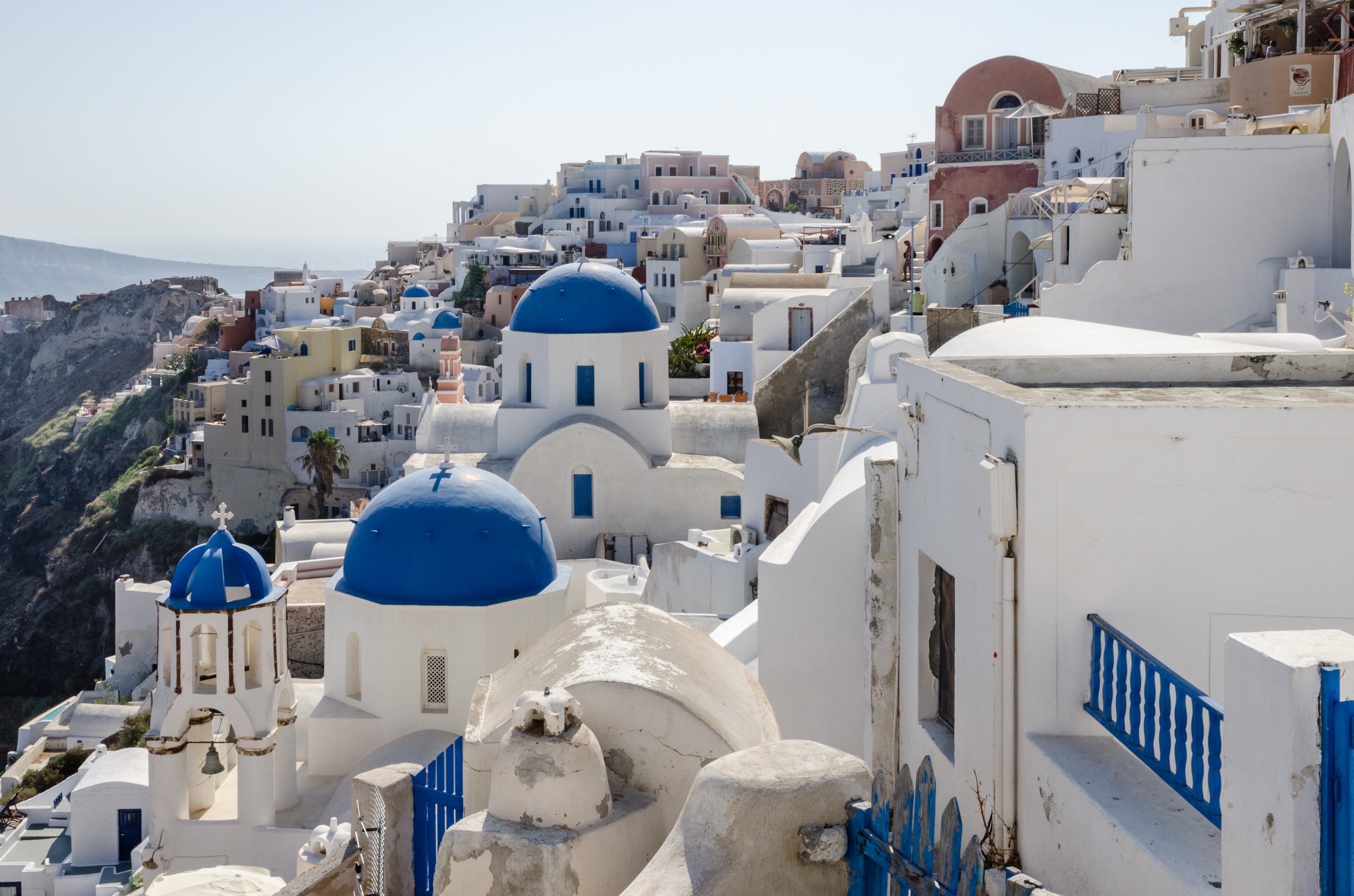 Oia, Santorini, Greece.